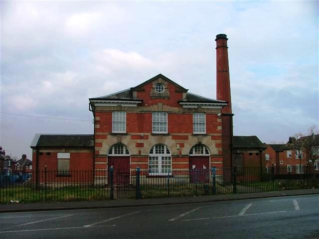 Former Municipal Swimming Baths, Northern Baths, Vernon Road. Currently the subject of an enforcement notice "without planning permission the change of use of the Land from leisure (municipal swimming baths) to production of videos and DVDs and storage and distribution of these and other goods." An appeal is in progress.